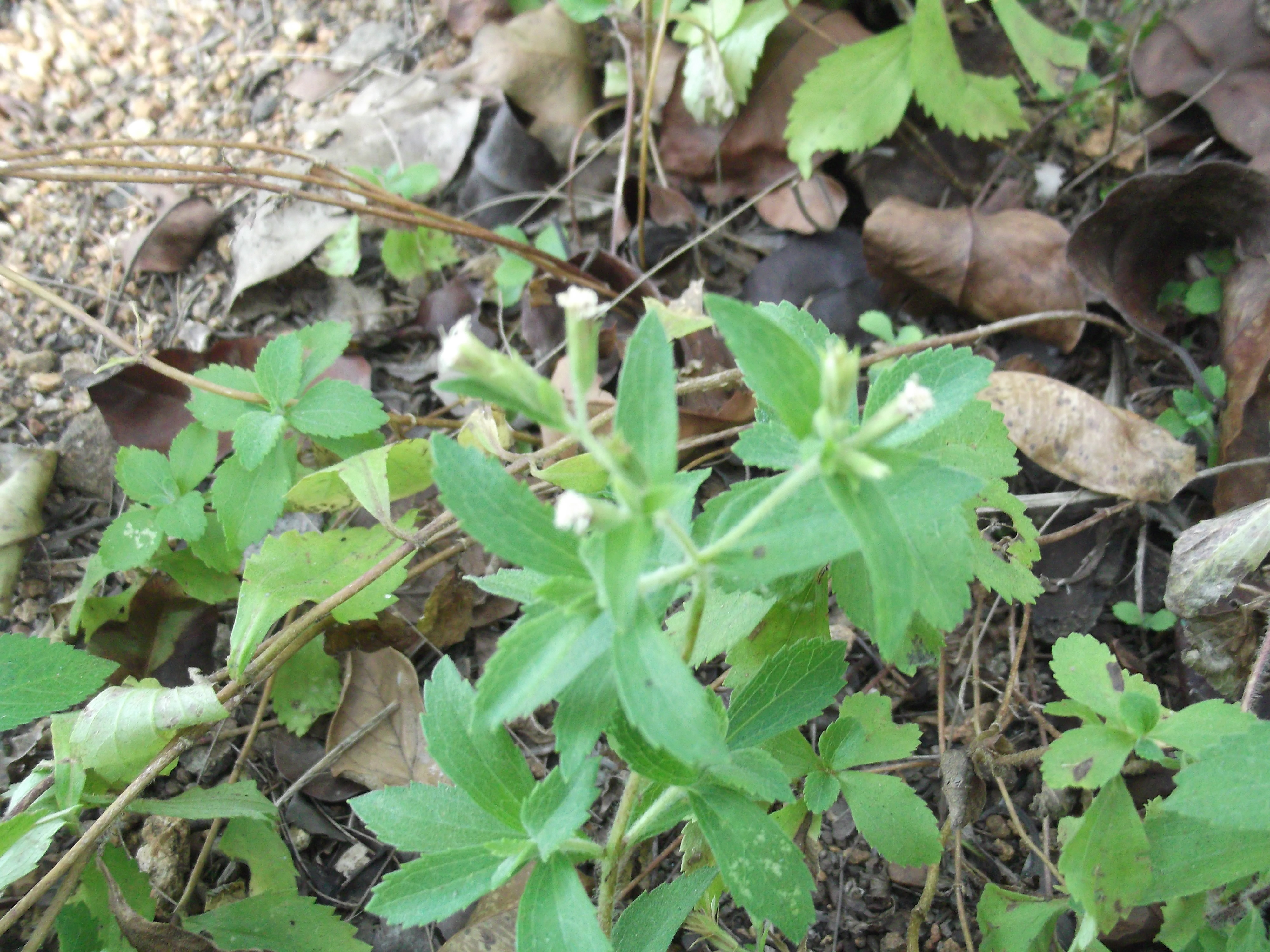 Stevia-herb, leaves small,fragrants,white disk flowers.